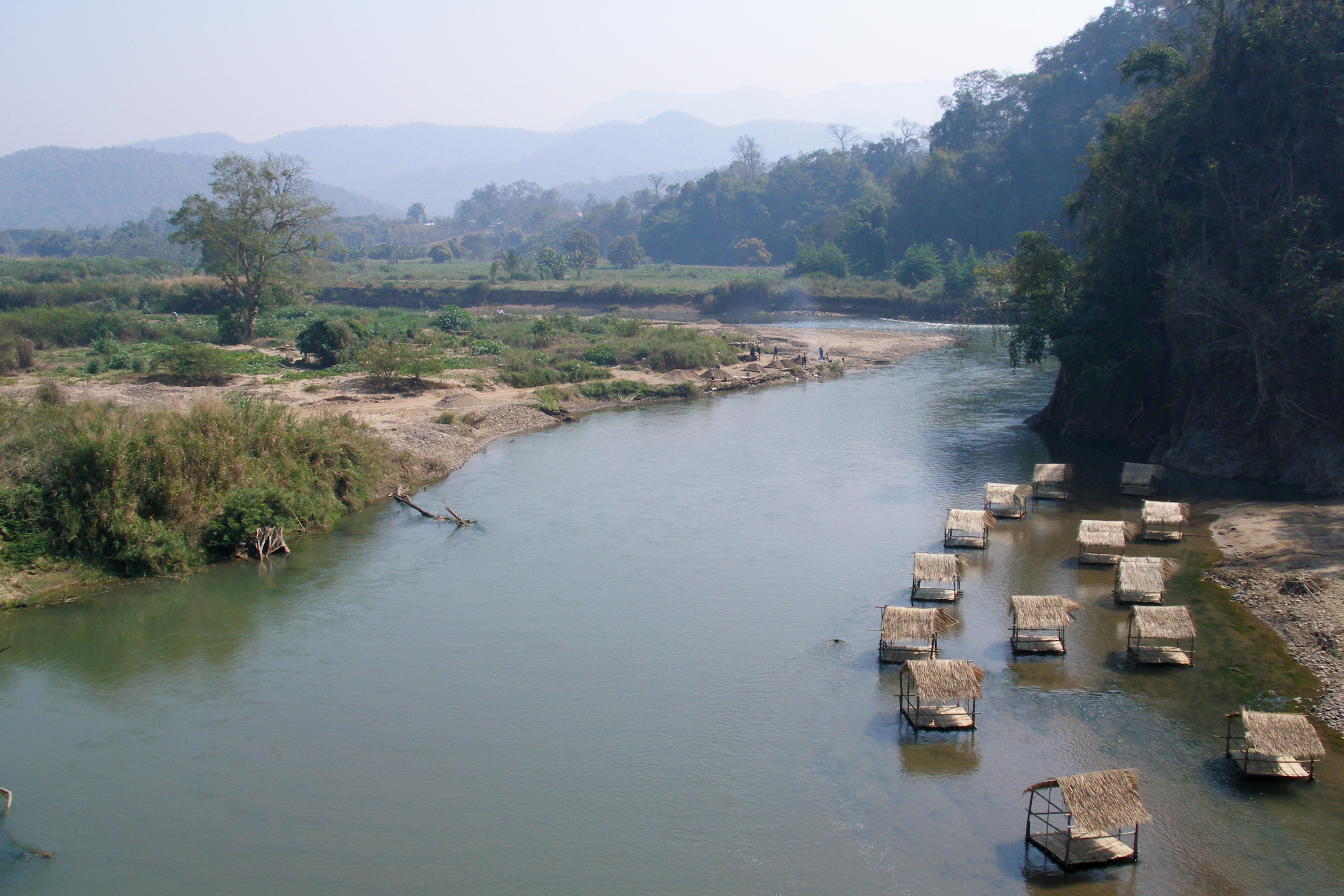 Pai River near Mae Hong Son, Thailand